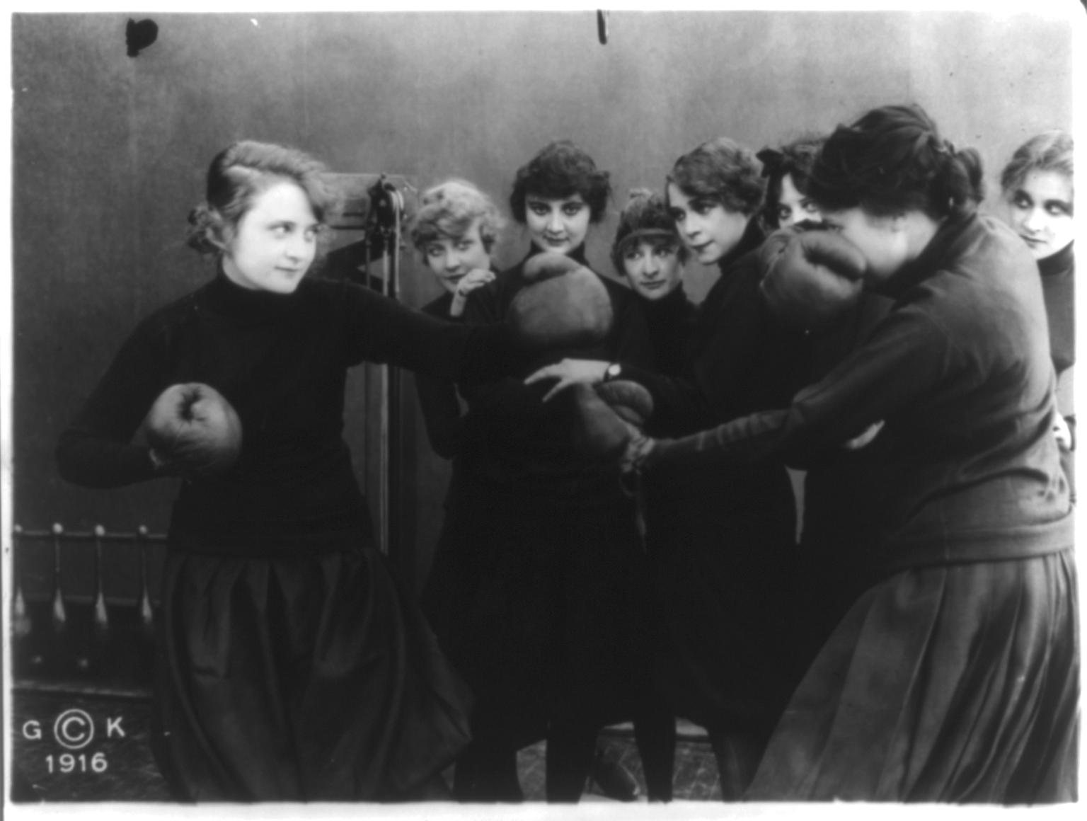 Still of Billie Burke starring in motion picture, "Gloria's Romance", 1916: boxing with woman in gymnasium.